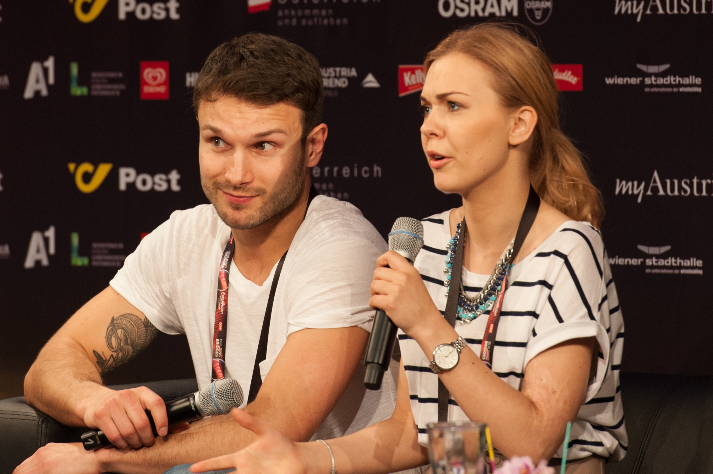 Eurovision Song Contest Vienna 2015: Monika Linkytė & Vaidas Baumila